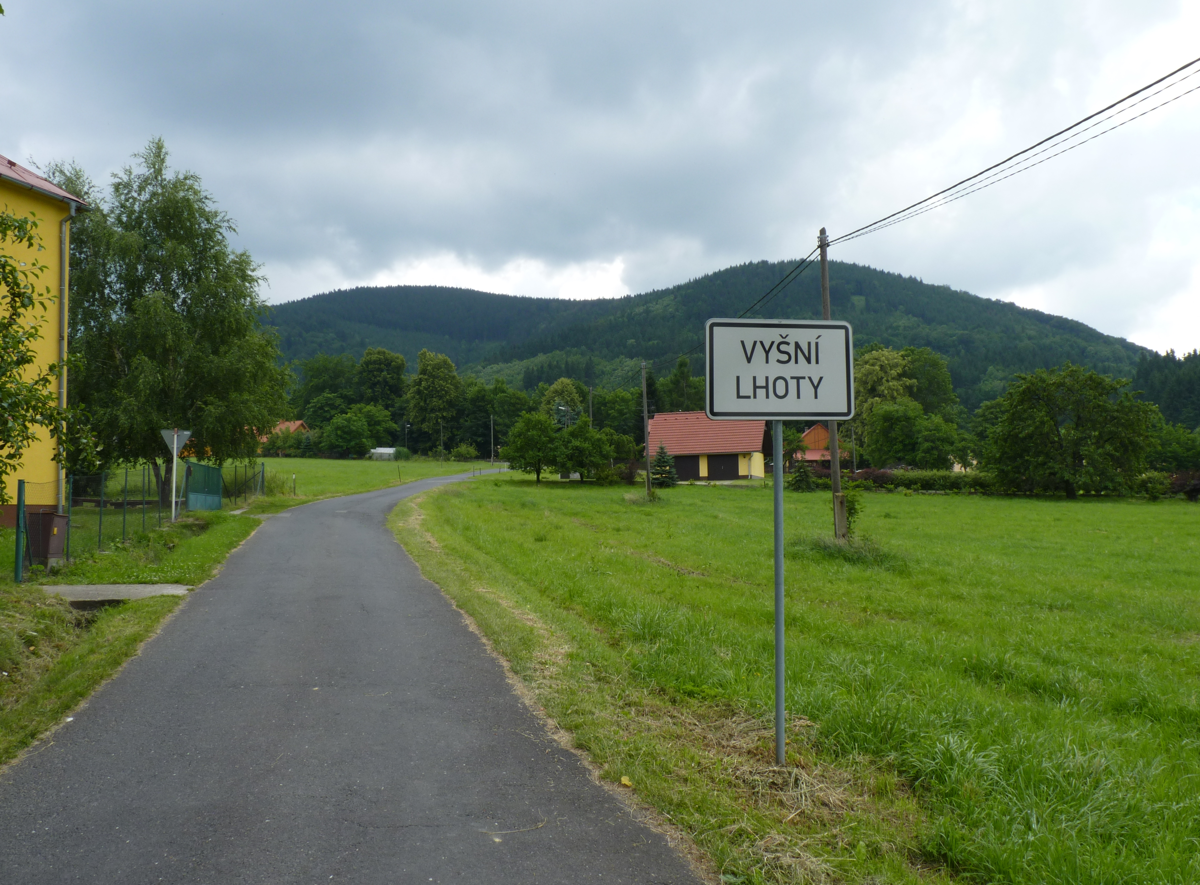 Vyšní Lhoty. Frýdek-Místek District, Moravian-Silesian Region, Czech Republic